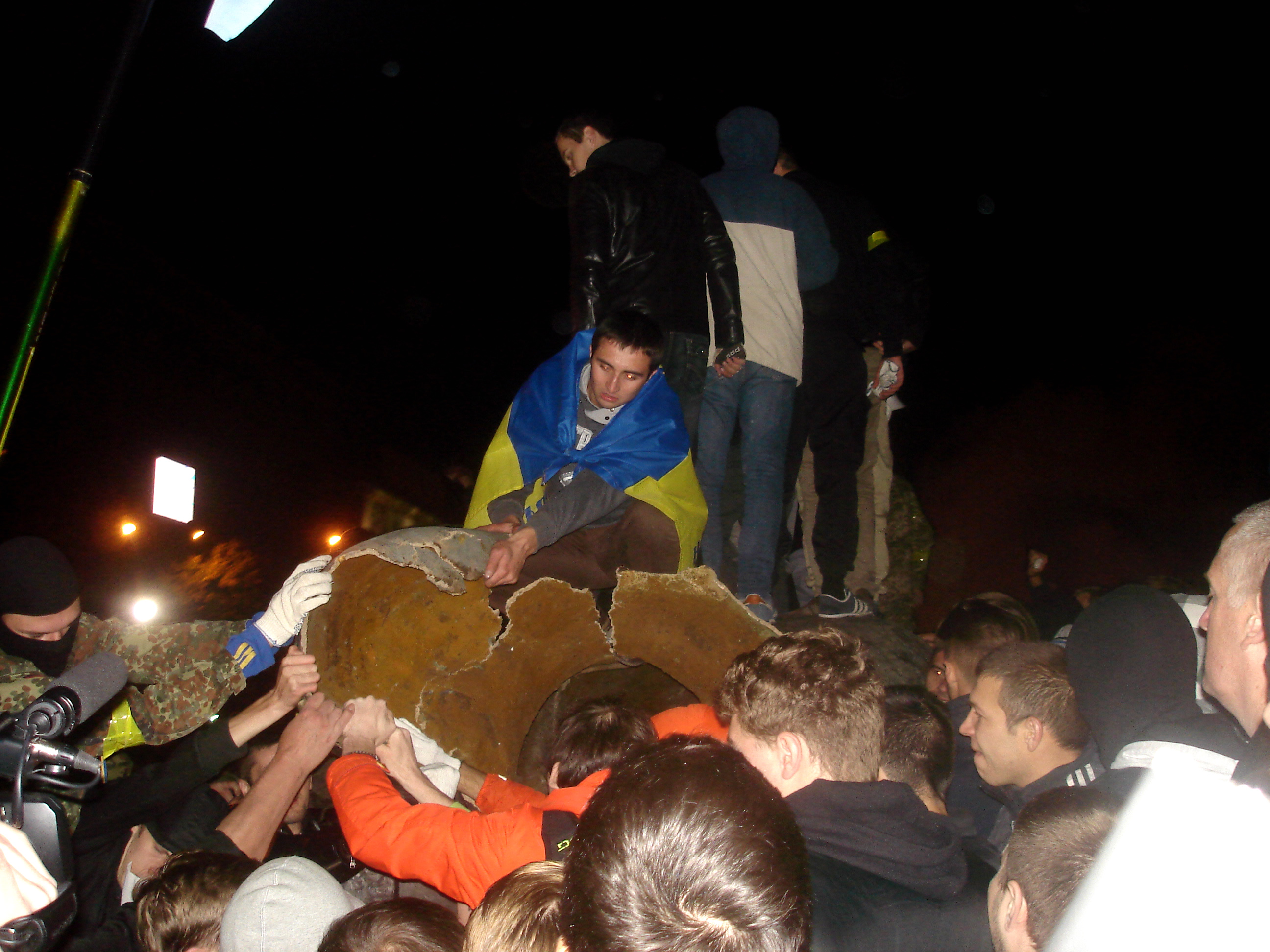 Destroyed the statue of Lenin at Freedom Square in Kharkiv. 28.09.2014.